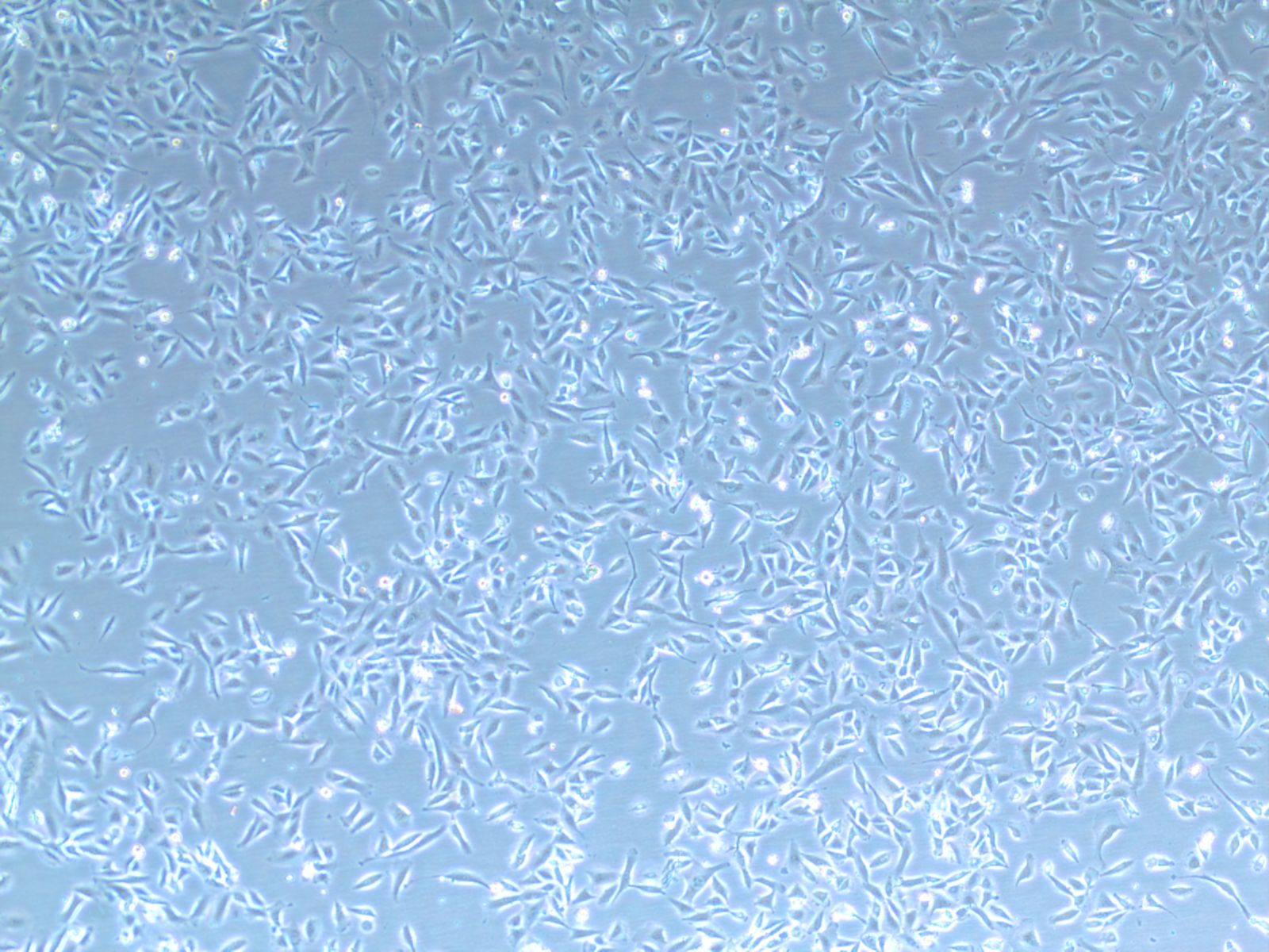 Snu449 cells at about 50 to 60 per cent confluency